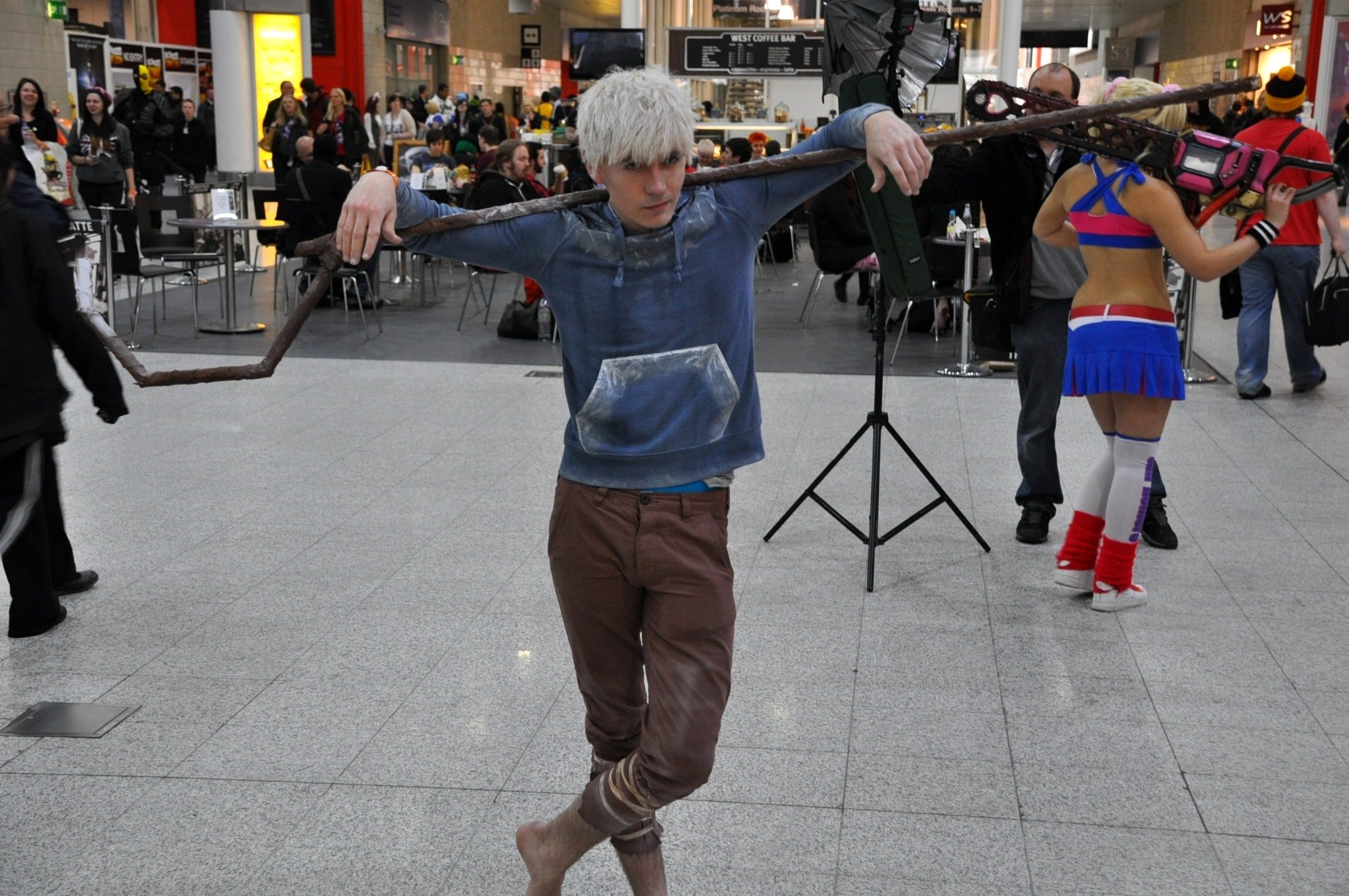 DSC_0042 Cosplay at the Summer 2013 MCM London Comic Con at the ExCeL Exhibition Centre.